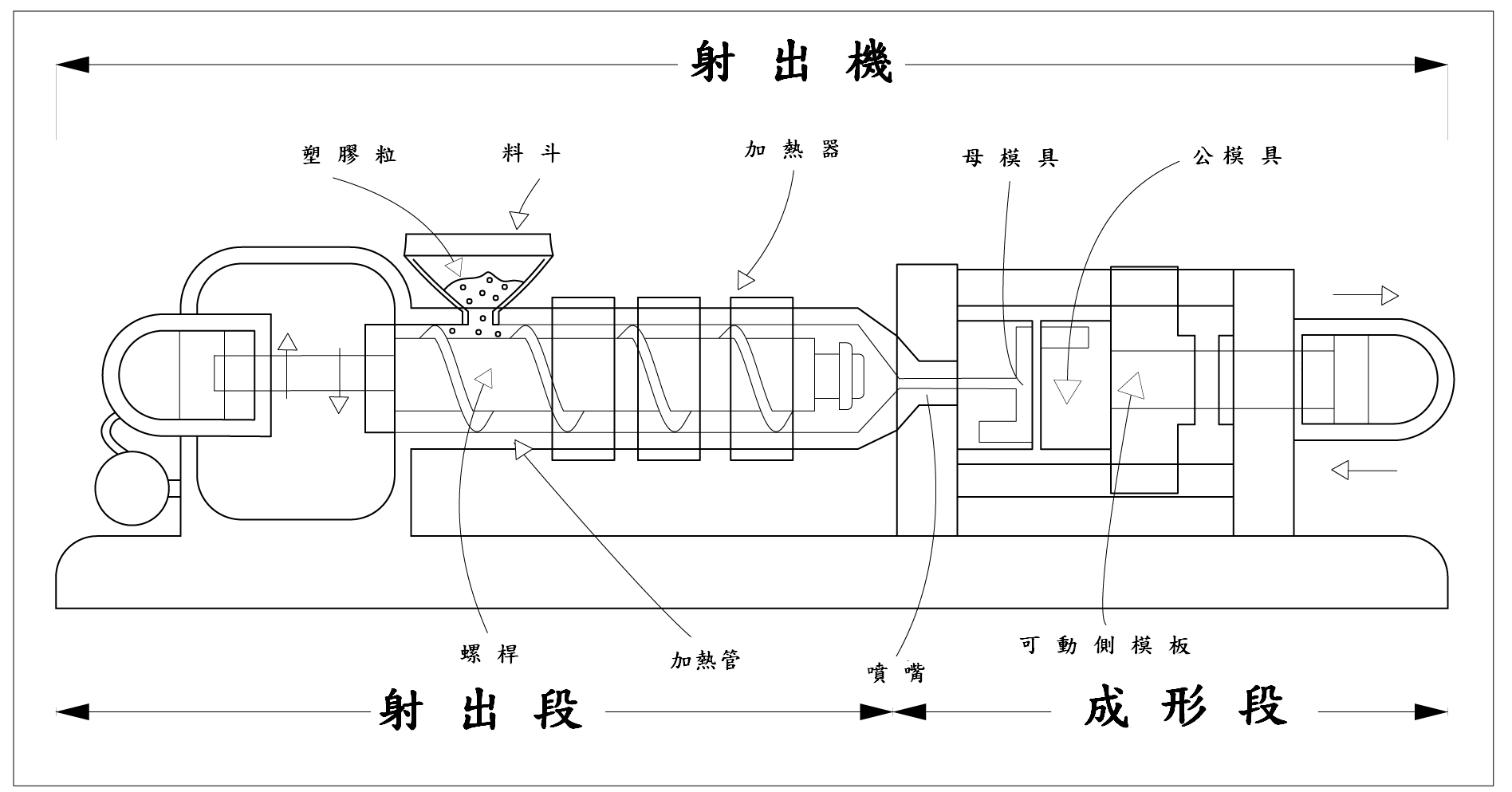 Injection Molding Machine how to work injection moulding